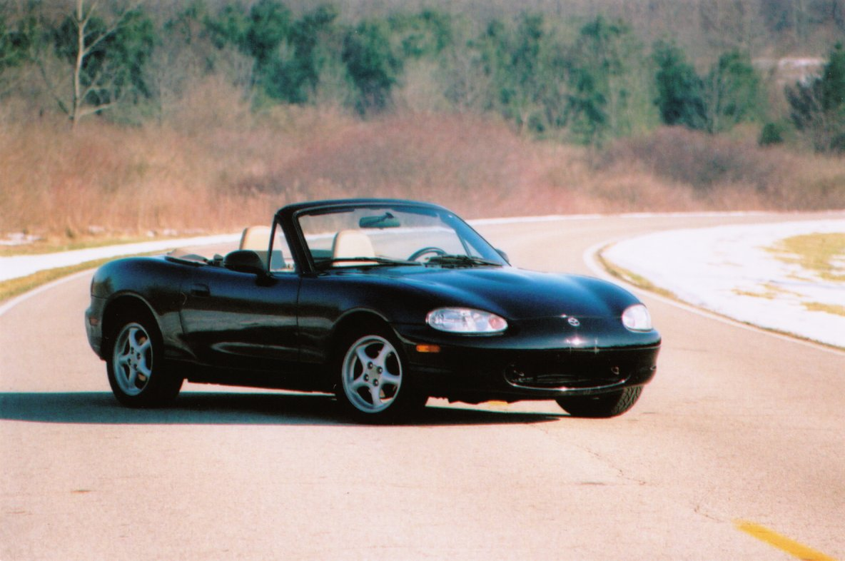 This is a picture of a 1999 Mazda MX-5 NB (known as "Mazda Miata" in North America) at a park in Springfield, OH (around Dayton).